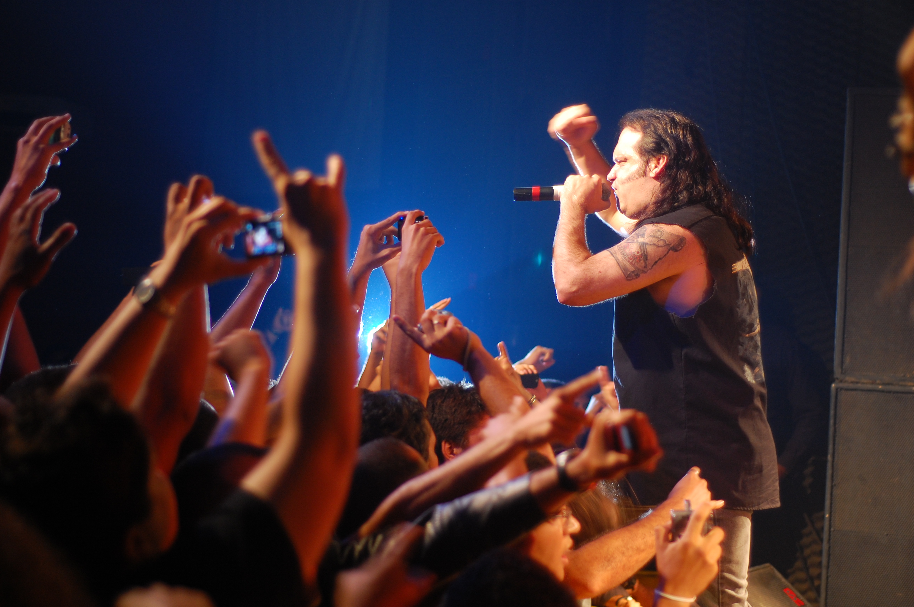 Blaze Bailey Live in Aracaju, Brazil